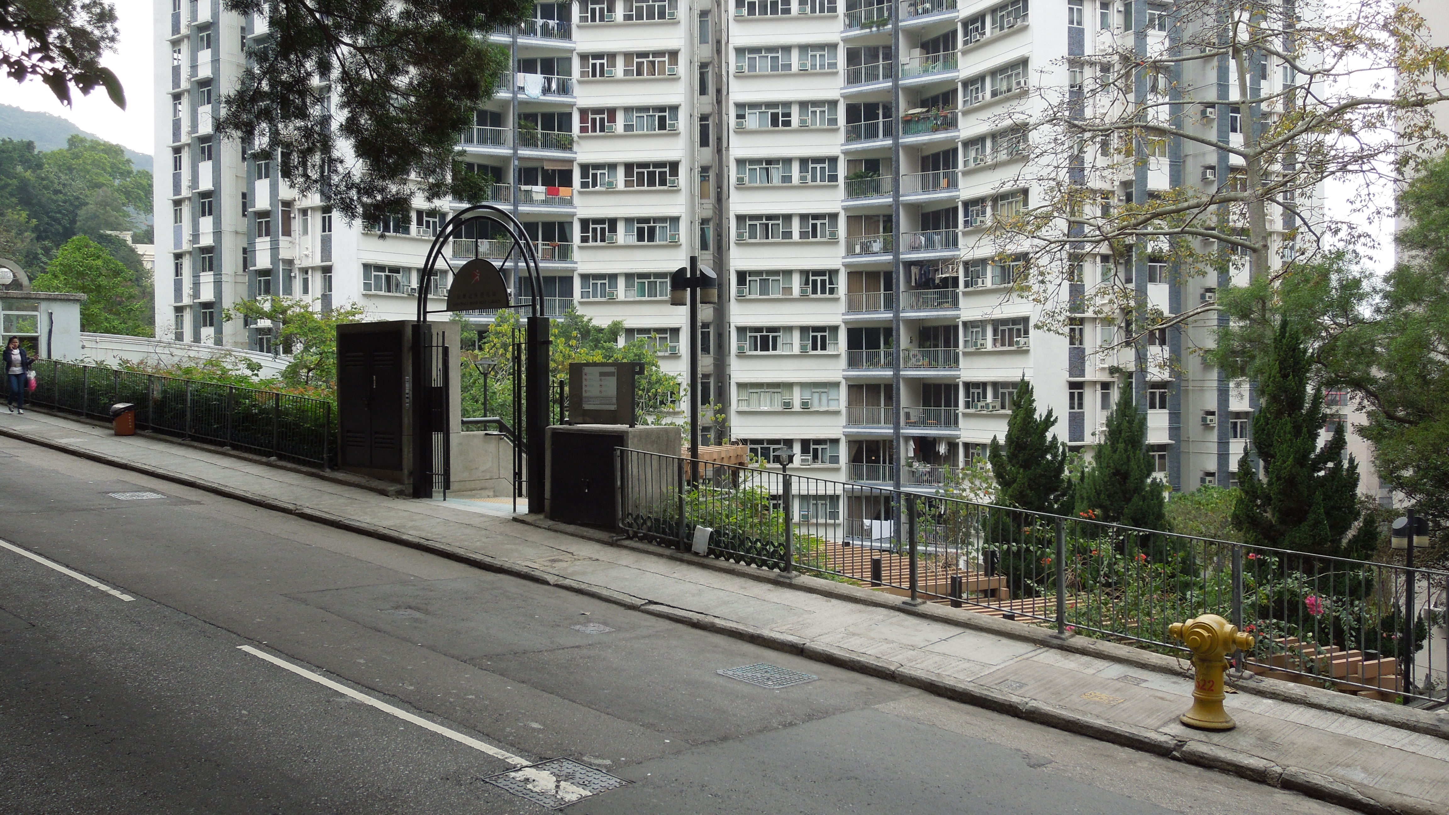 中文（香港）: Kotewall road